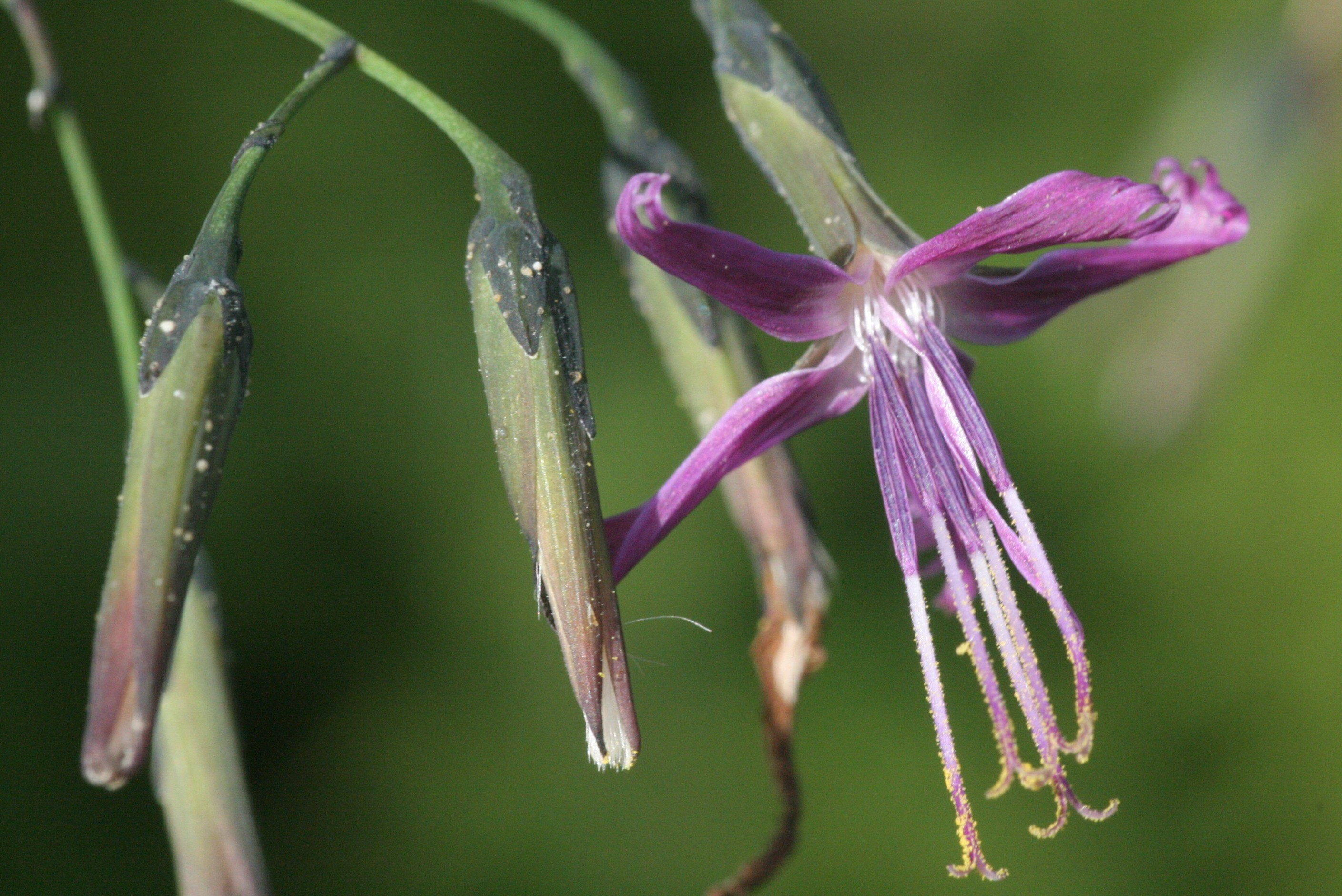 Prenanthes purpurea